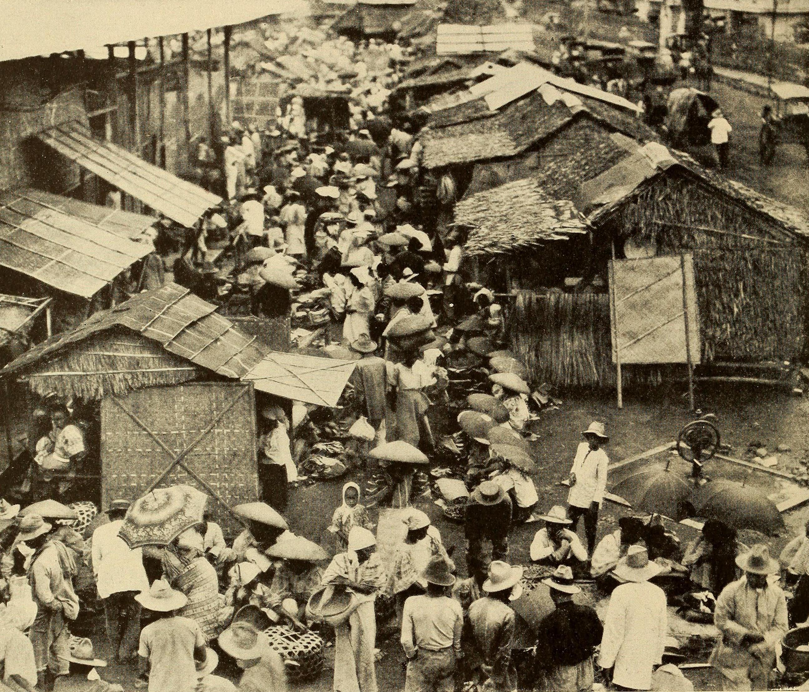 The National geographic magazine.